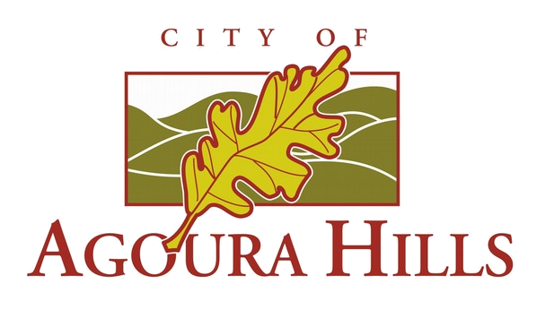 Logo of the city of Agoura Hills. Description: "The municipal logo consists of an oak leaf veined and fimbriated violet, placed saltirewise within a rectangle also fimbriated violet and superimposed upon a landscape of green rolling hills outlined in white, with a clear sky above. Over the rectangle are the words 'City of' in very small violet lower case letters, while beneath the rectangle are the words 'AGOURA HILLS' in large violet capitals." Ron Lahav, 28 June 2004